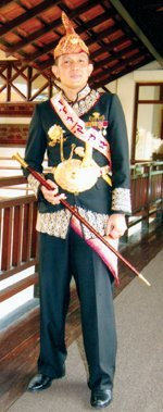 Pernong